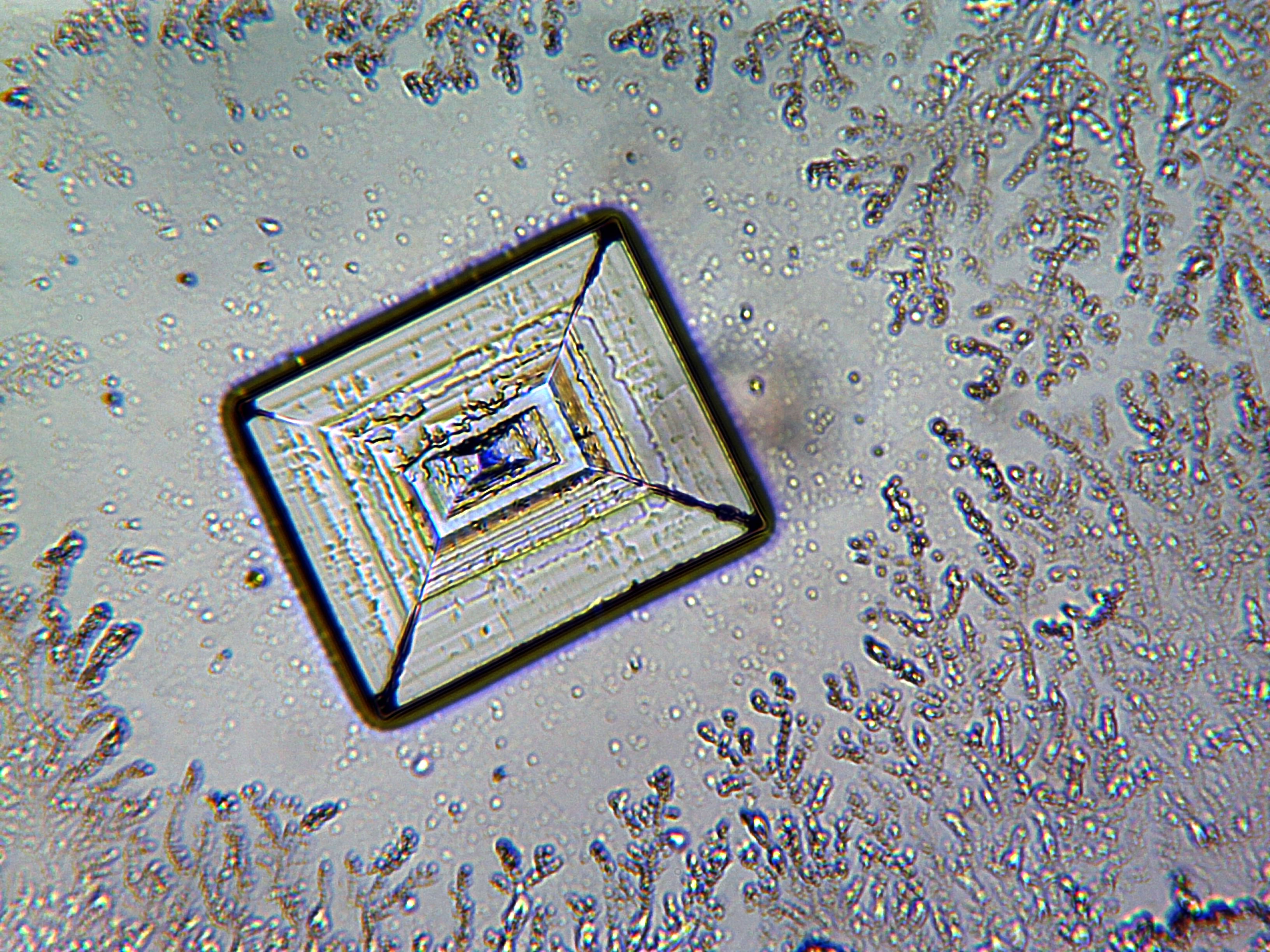 natrium chloride kristal under microscope